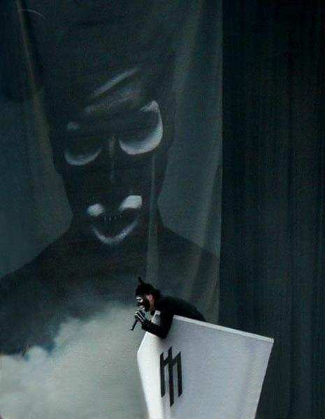 Marilyn Manson performing live during the Grotesk Burlesk tour